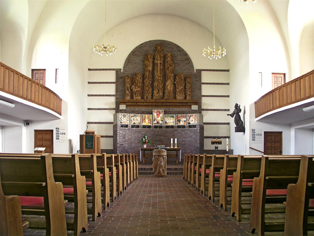 Neumünster, Schleswig-Holstein, Germany: church “Anscharkirche“, photo 2007